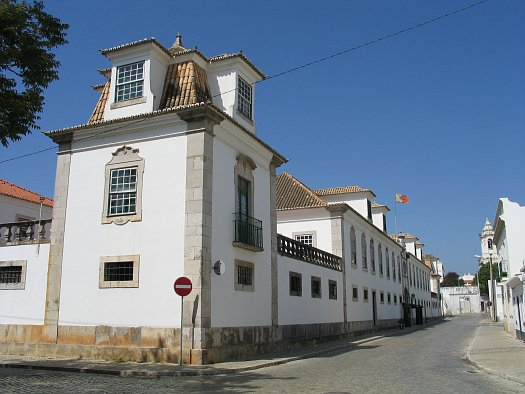 The military barracks located on Rua Doutor Fausto Cansado in the city of Tavira, Algarve, Portugal.